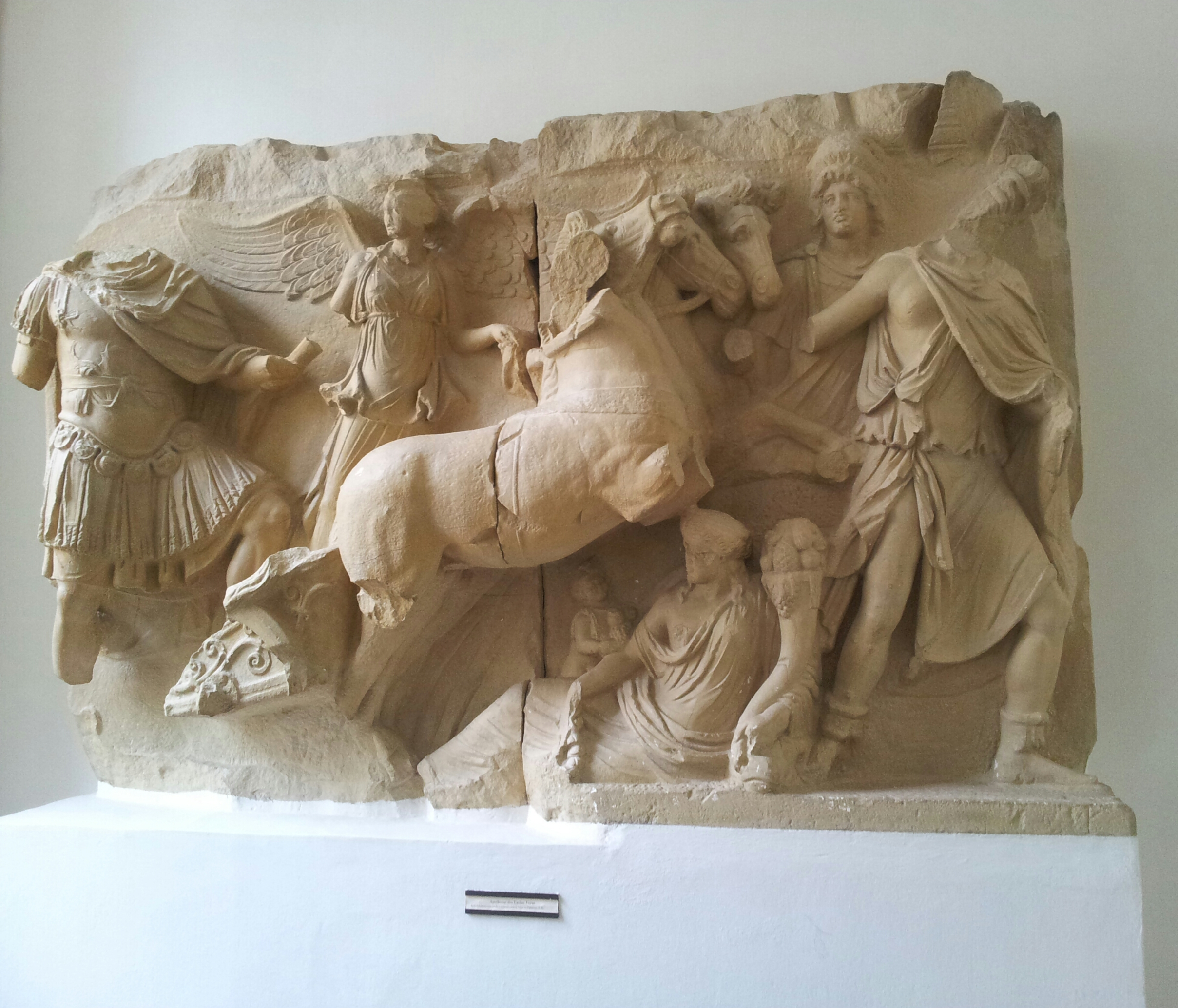 Relief plates from Ephesus, 2nd century AD, on display at Humboldt-Universität zu Berlin